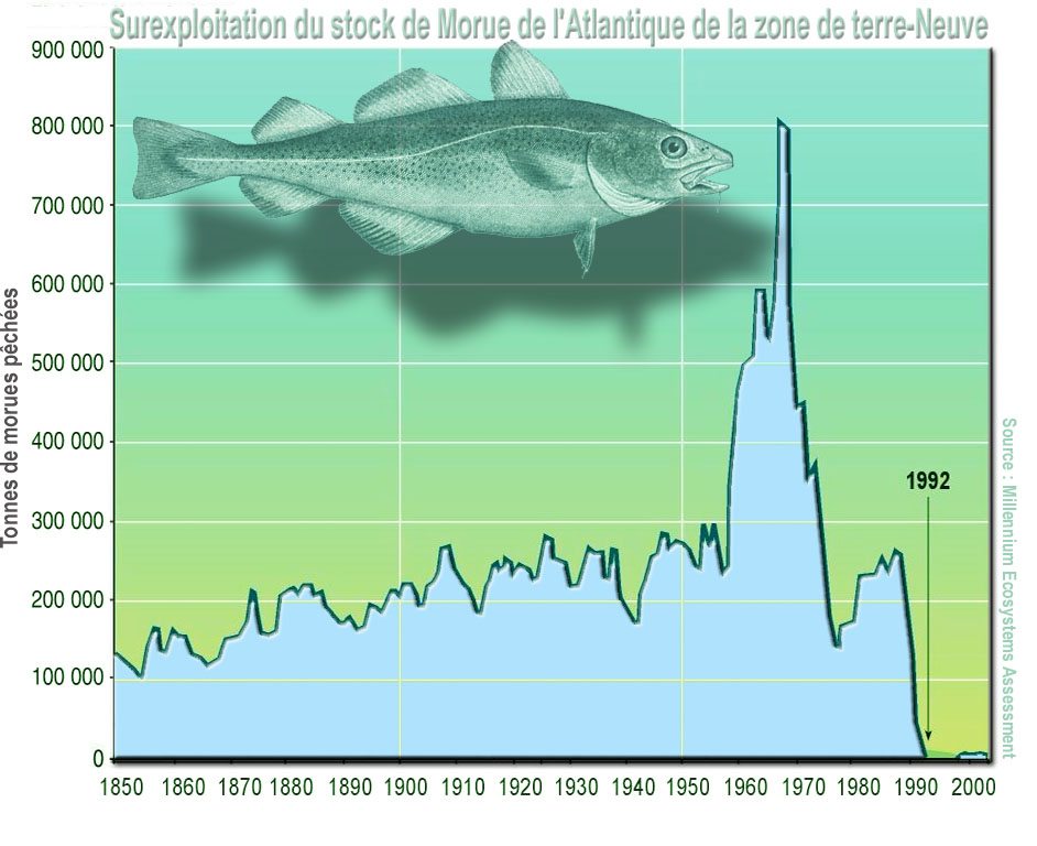 Collapse of Atlantic cod stocks off the East Coast of Newfoundland in 1992. From the late 1950s, offshore bottom trawlers began exploiting the deeper part of the stock, leading to a large catch increase and a strong decline in the underlying biomass. Internationally agreed quotas in the early 1970s and, following the declaration by Canada of an Exclusive Fishing Zone in 1977, national quota systems ultimately failed to arrest and reverse the decline